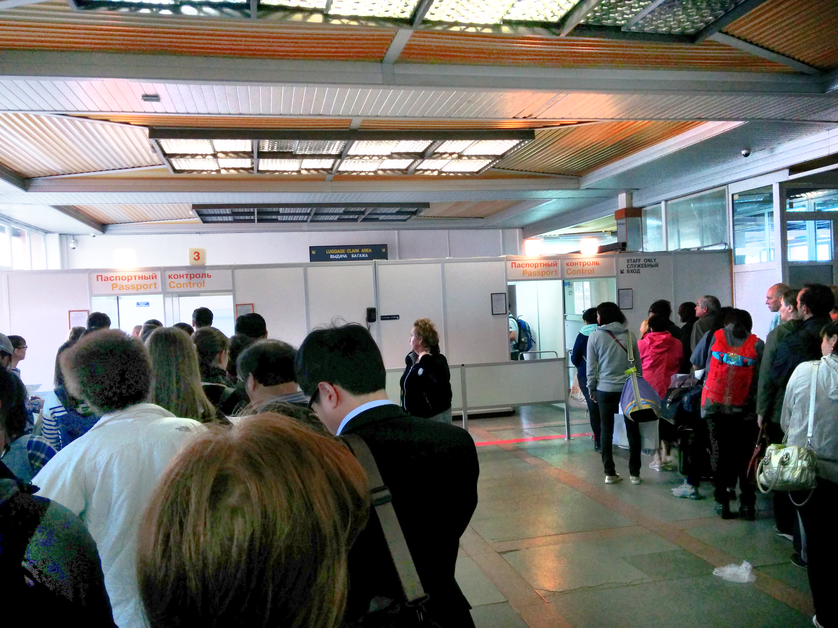 Passport control at Irkutsk Airport